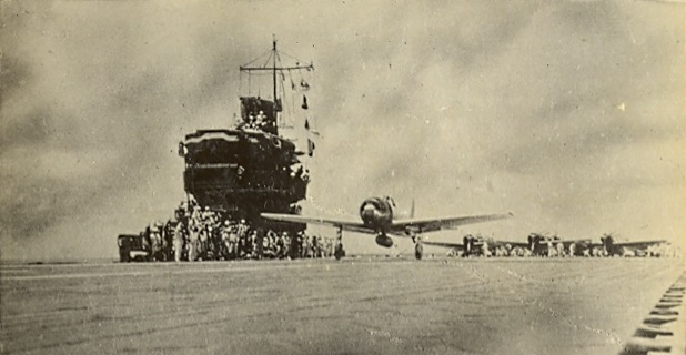 A Zero fighter launches off the Japanese carrier Shōkaku at the Battle of Coral Sea.